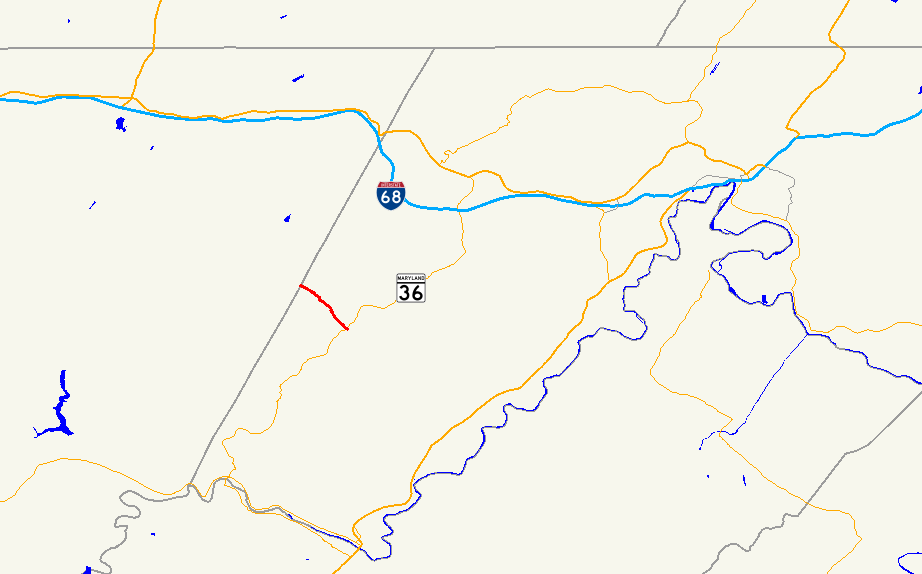 Map of MD Route 657